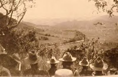 3rd Wisconsin in Coamo, Puerto Rico in 1898